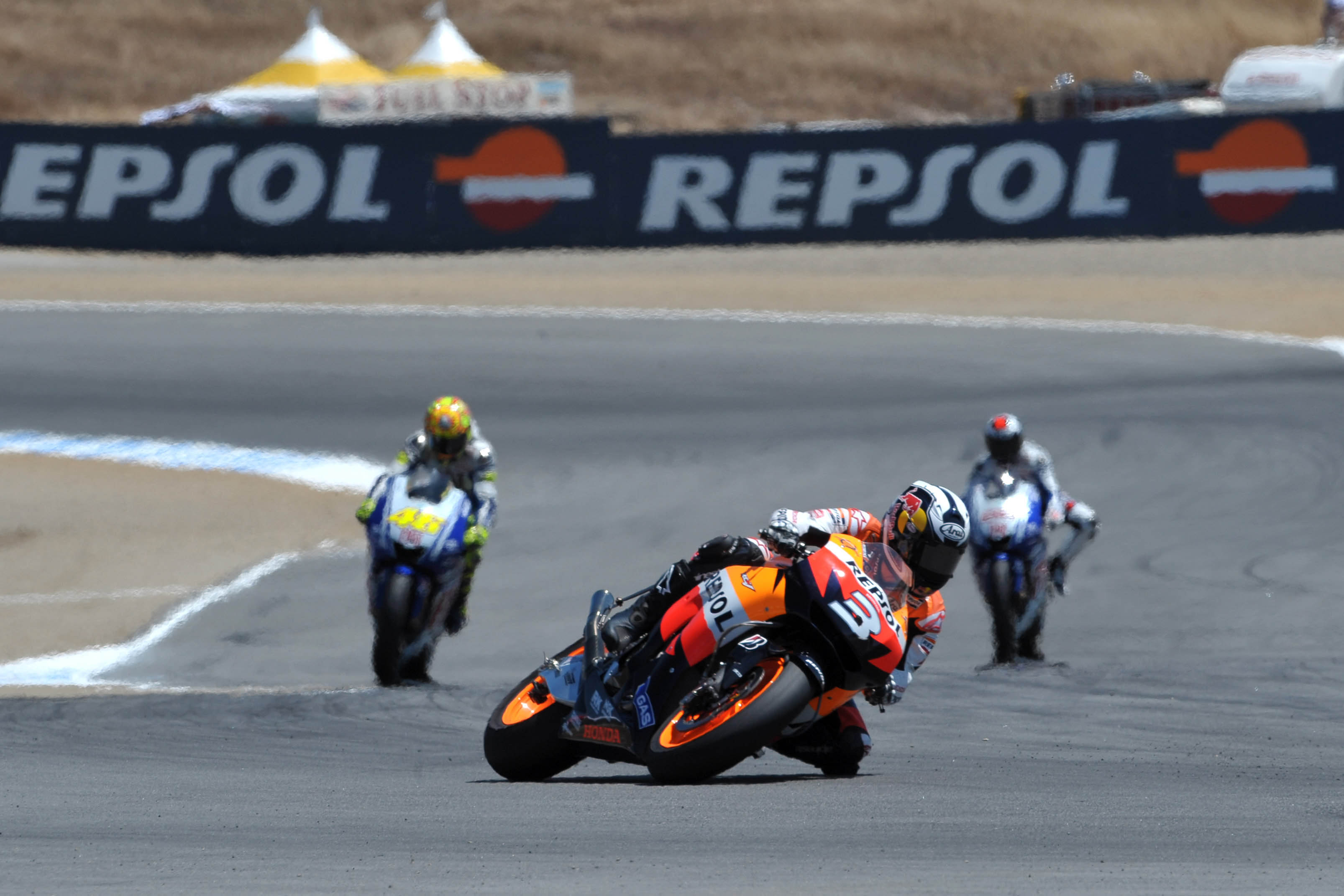 Dani Pedrosa, riding his Repsol Honda, being followed by the FIAT Yamaha's of Valentino Rossi and Jorge Lorenzo at the 2009 United States Grand Prix.